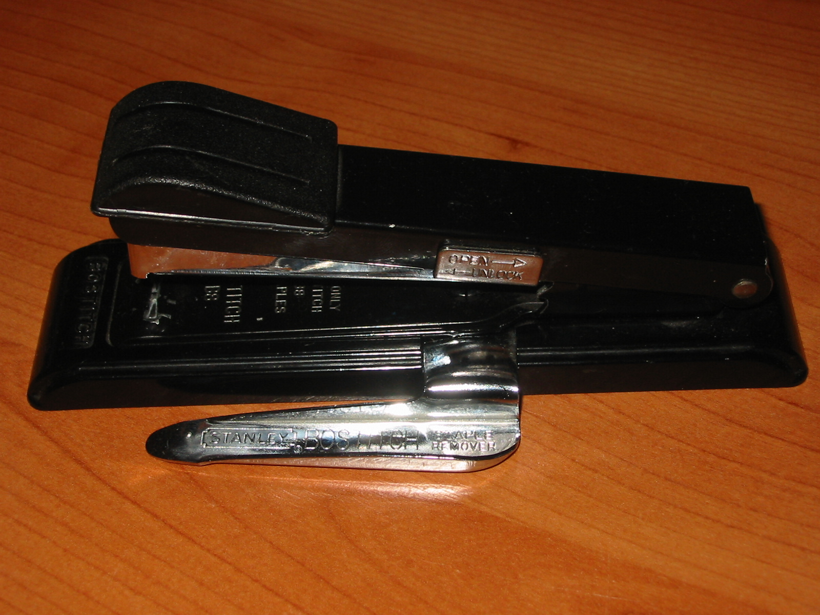 Stapler with integrated staple remover